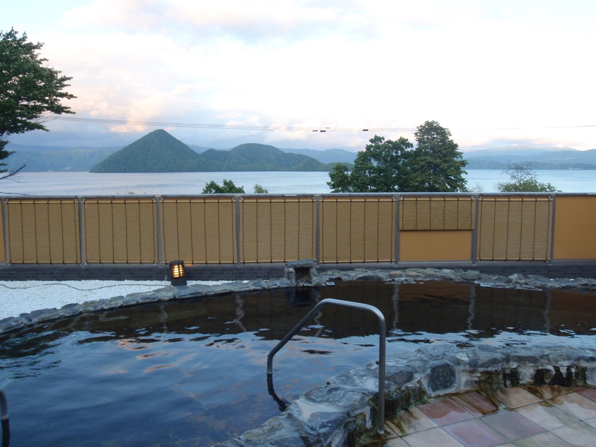 Toya-Tsukiura Onsen Toyako, Hokkaido